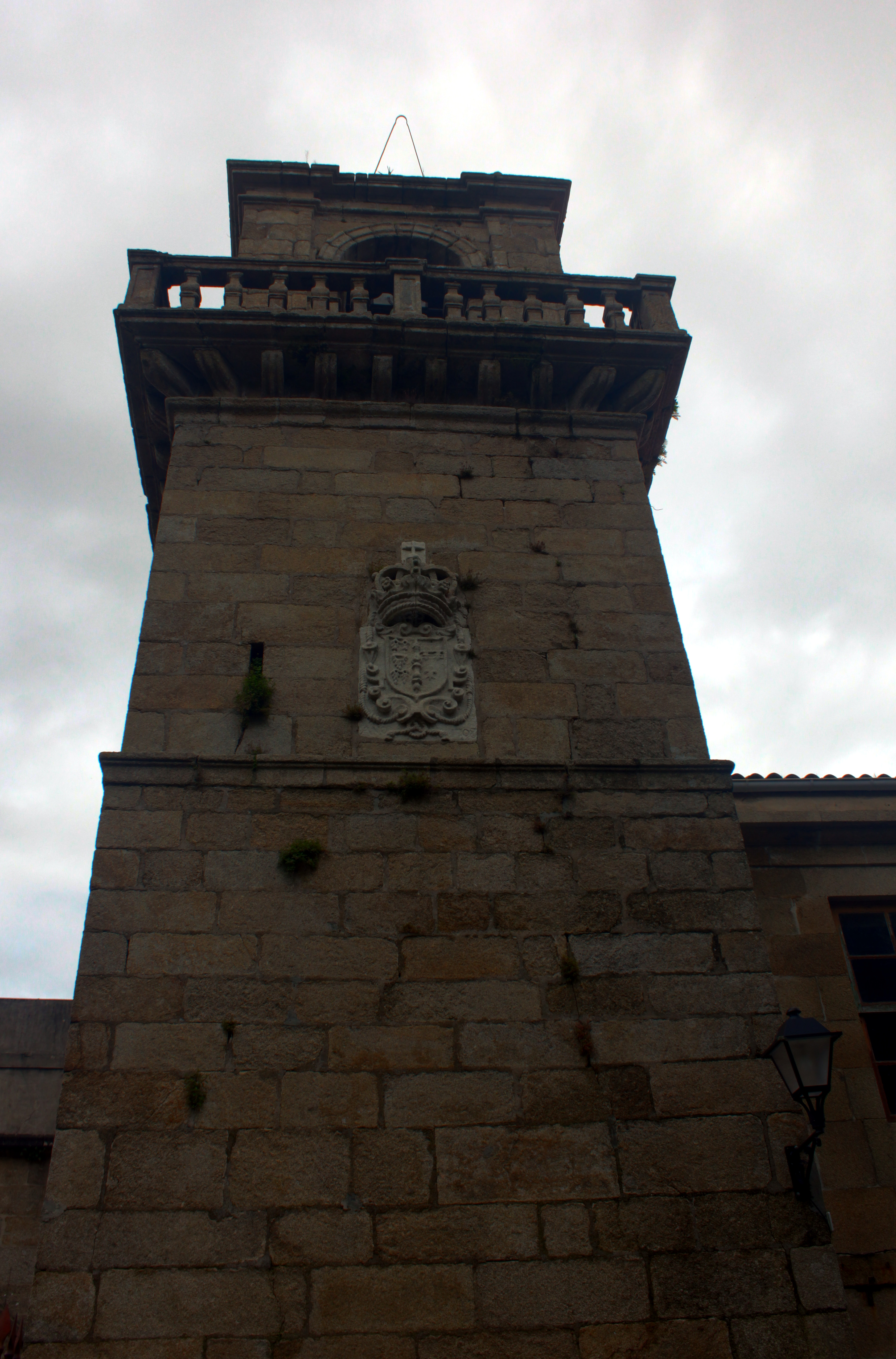 Tower of the monastery of Santa Catalina, in Montefaro, Ares, Galicia, Spain.